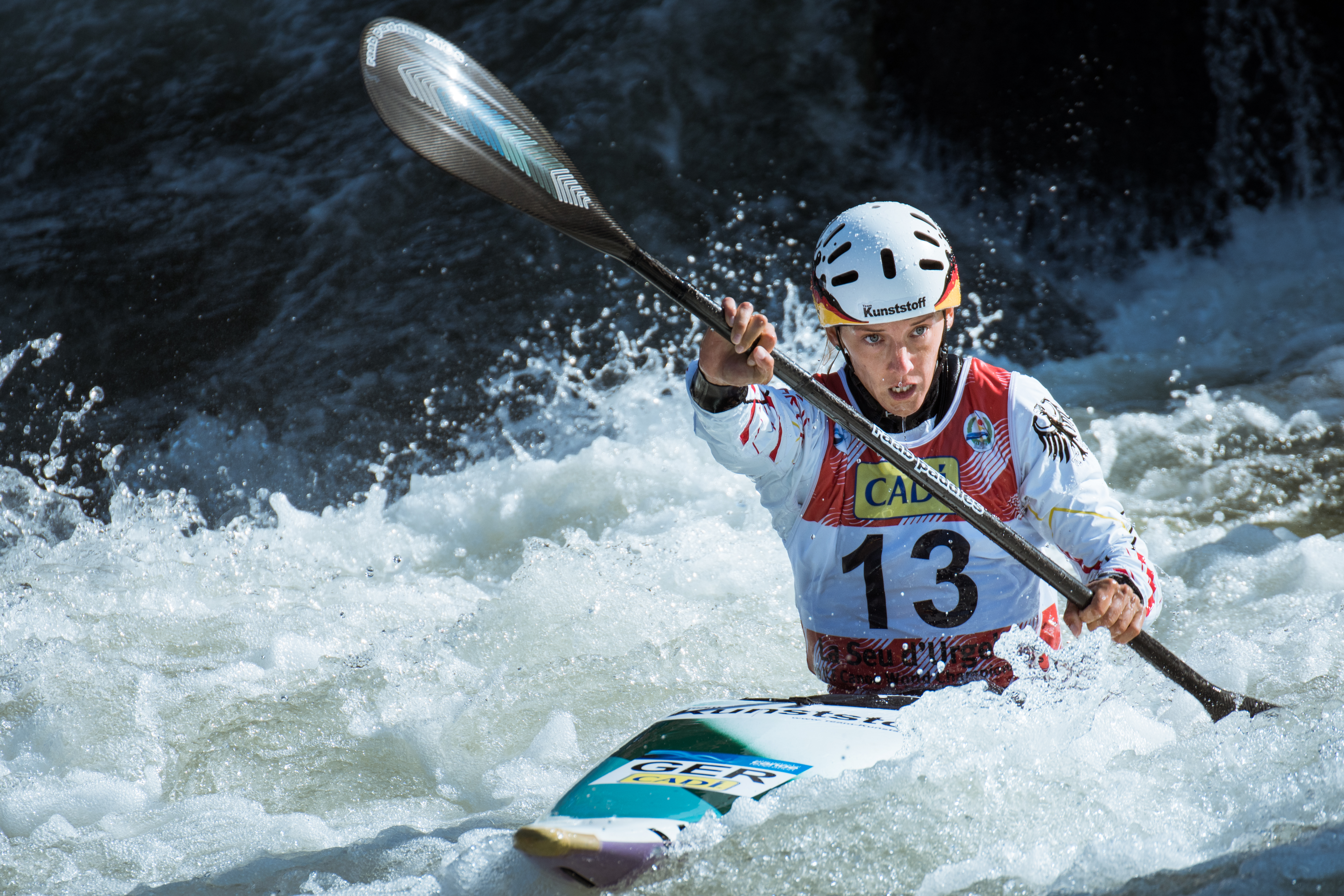 Jasmin Schornberg during the 2019 Canoe Slalom World Championships in La Seu d'Urgell, Spain.